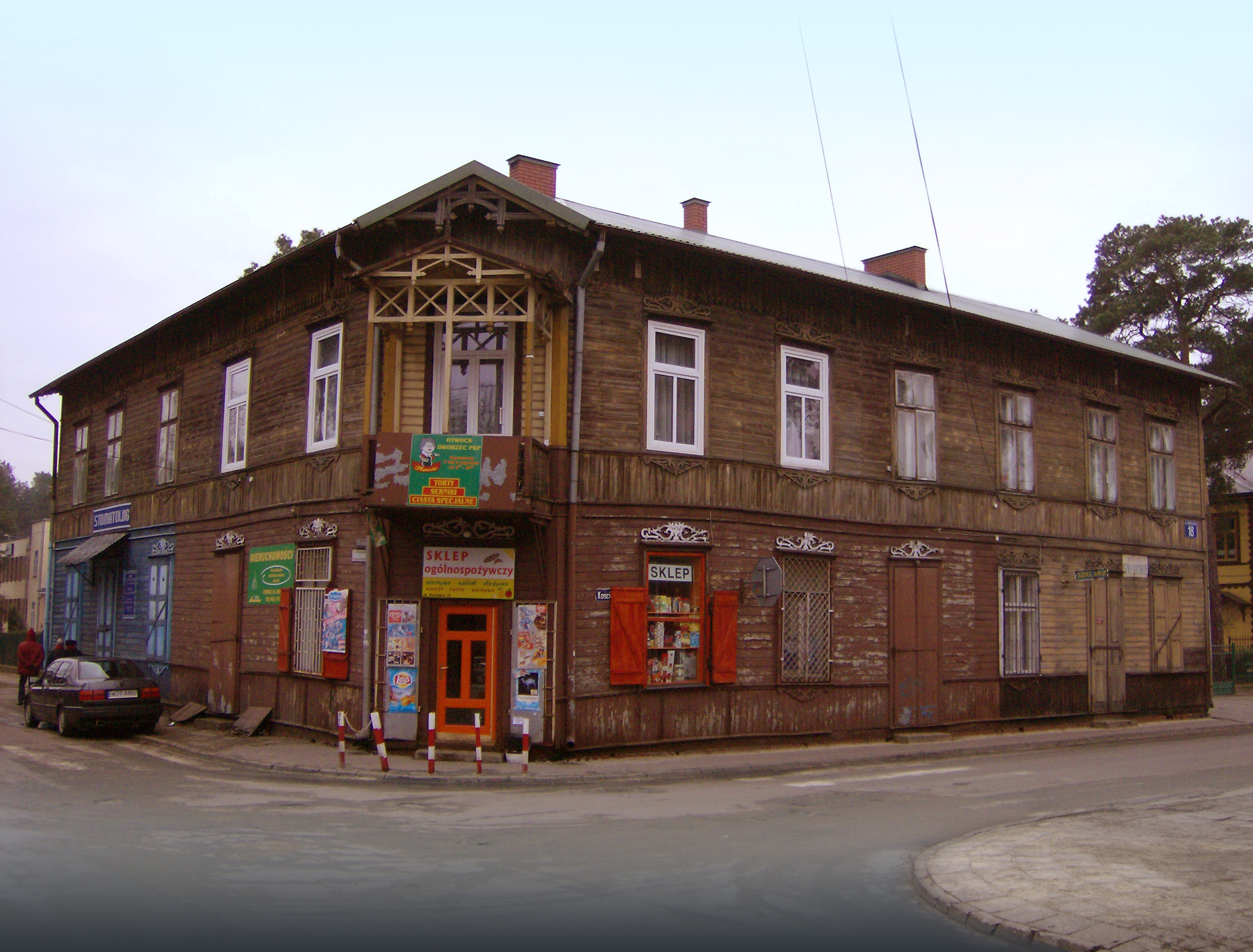 The building where Calel Perechodnik lived in Otwock, Poland. Taken by ProhibitOnions, 2008.